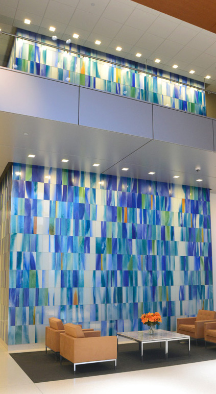 Thinner crop of Water Walk by Paul Housberg